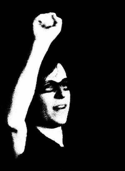 Melissa York with fist in air while performing at The Saint in Asbury Park, NJ on April 20, 2012.